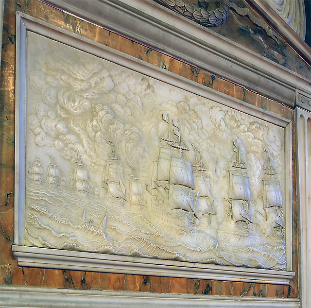 Monument to Admiral Lord Hawke - St Nicolas' church, North Stoneham (detail 2)